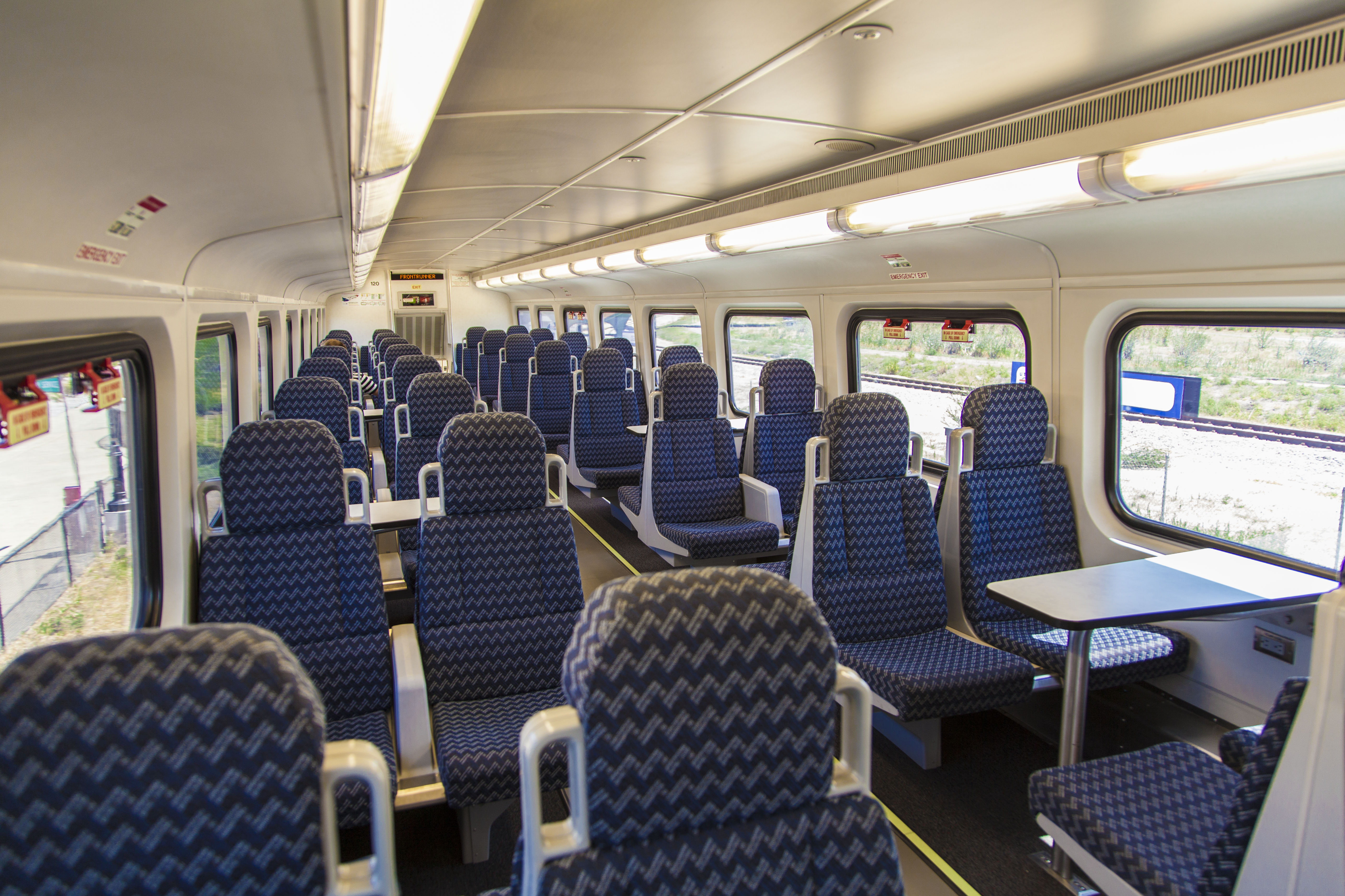 Utah Transit Authority FrontRunner Bombardier car interior